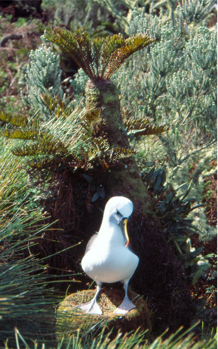 Gough Island. The Atlantic yellow-nosed albatross (Thalassarche chlororhynchos), which breeds on the island, is classified as endangered (EN A4bd) on the World Conservation Union Natural Resources Red List 2004. Although originally endangered as a result of longline fishing, albatross chicks are now under threat from a mouse (Mus musculus) introduced to the island.